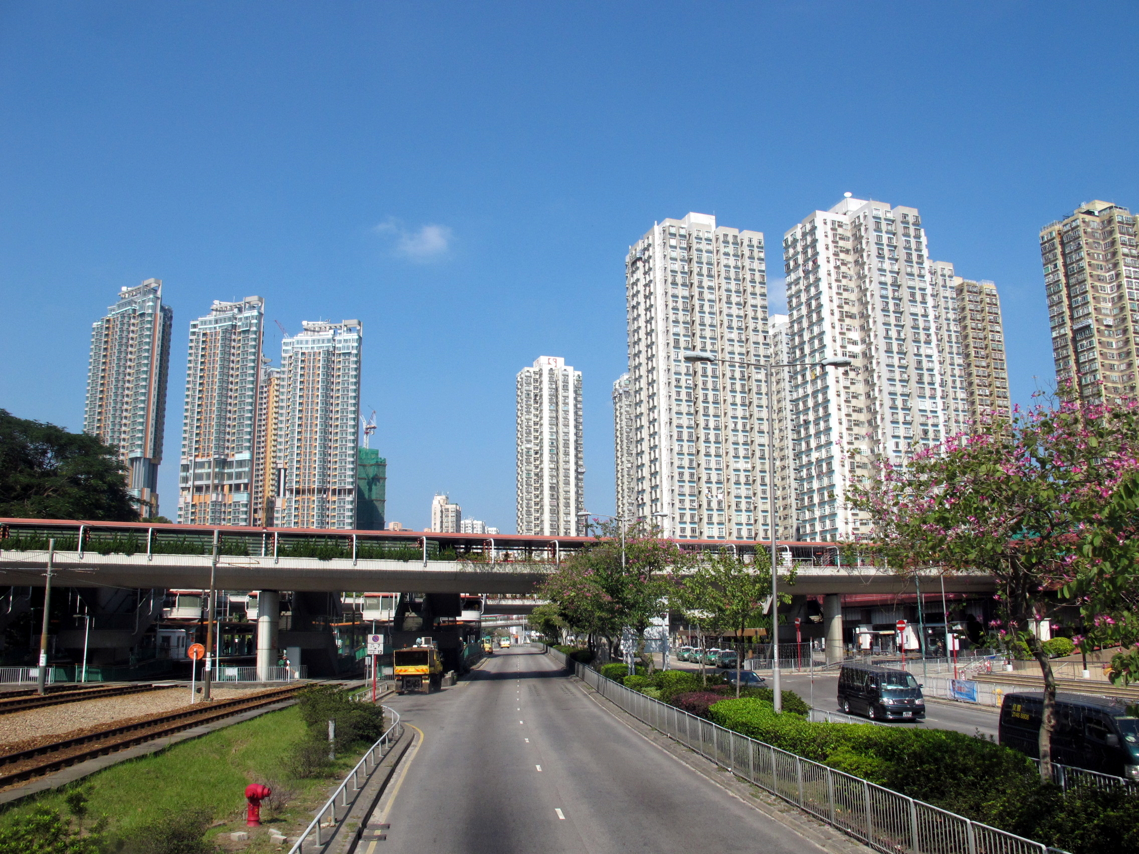 Tuen Mun Town Centre Private Residential